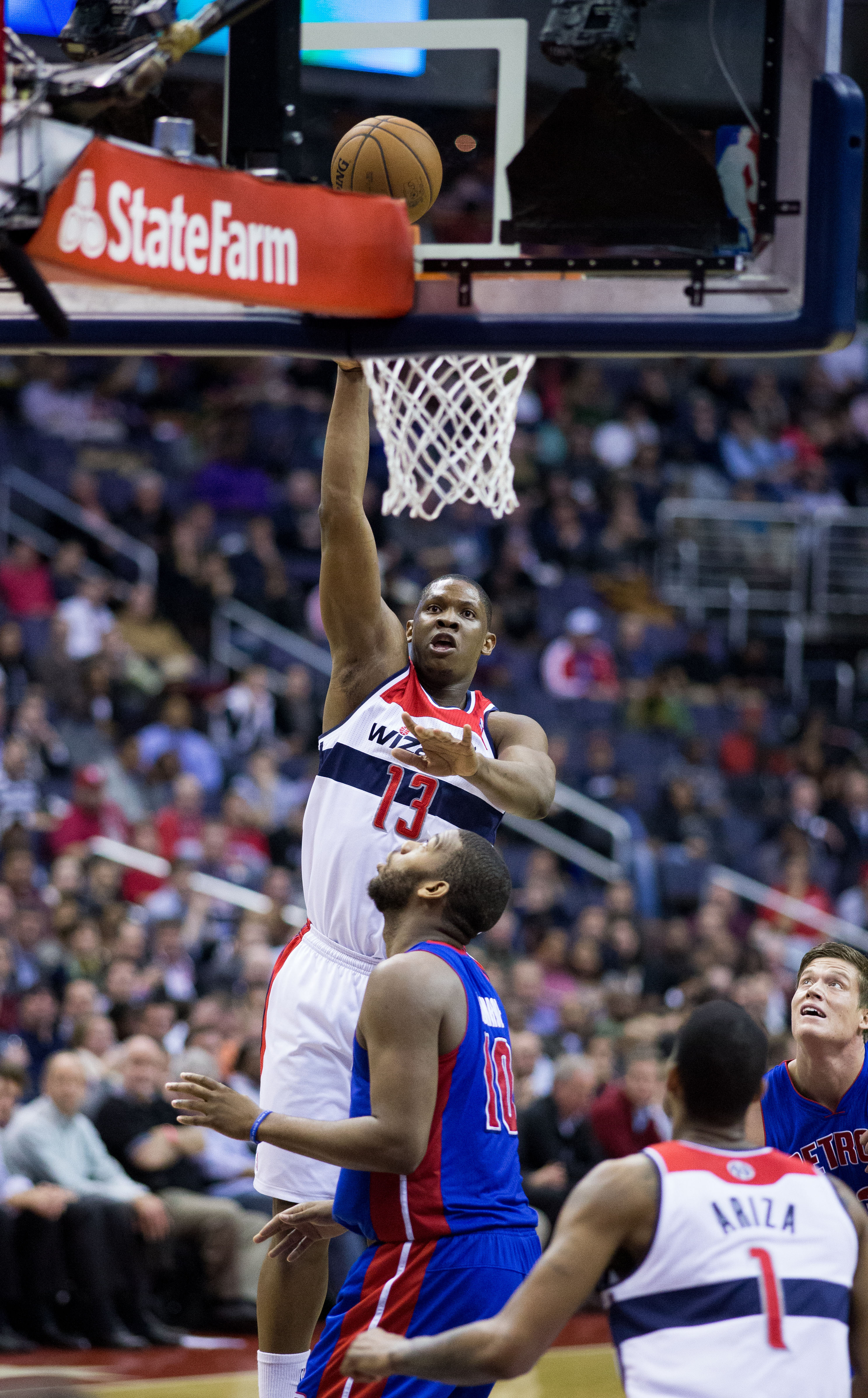 Detroit Pistons at Washington Wizards Feb 27, 2013